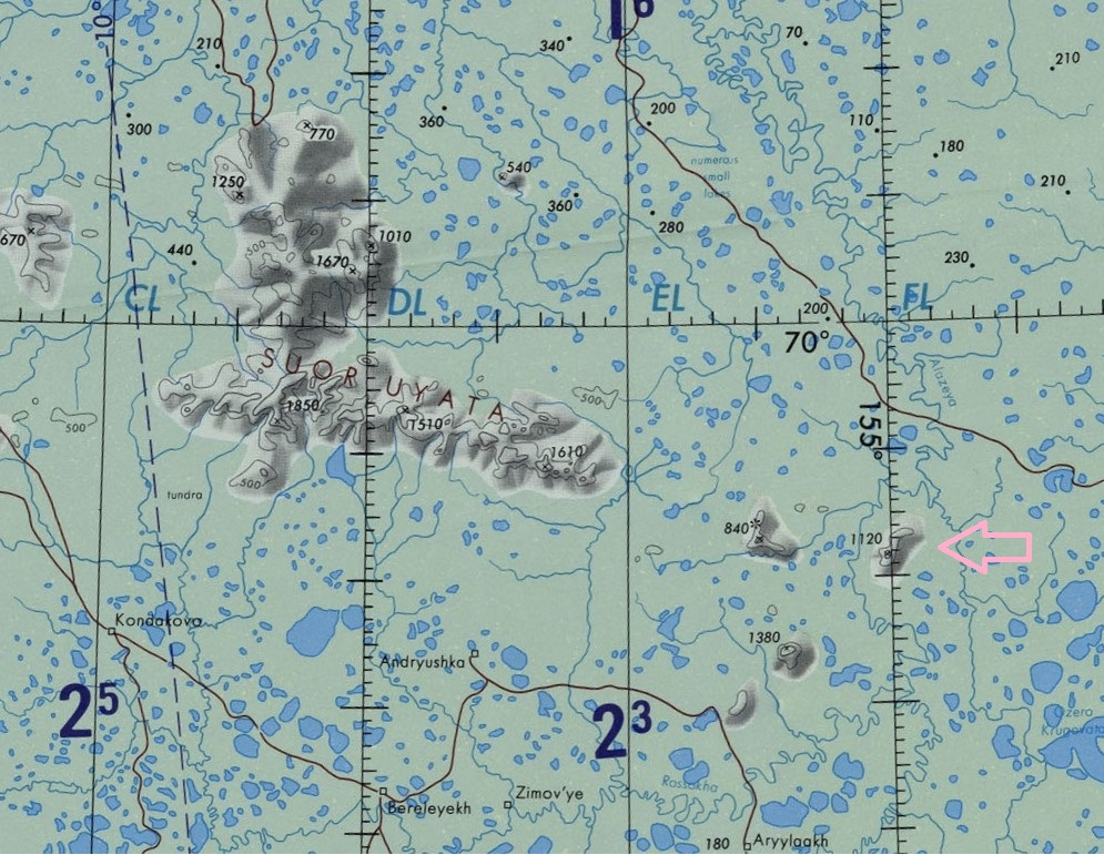 Location of Mount Kisilyakh-Tas (arrow}